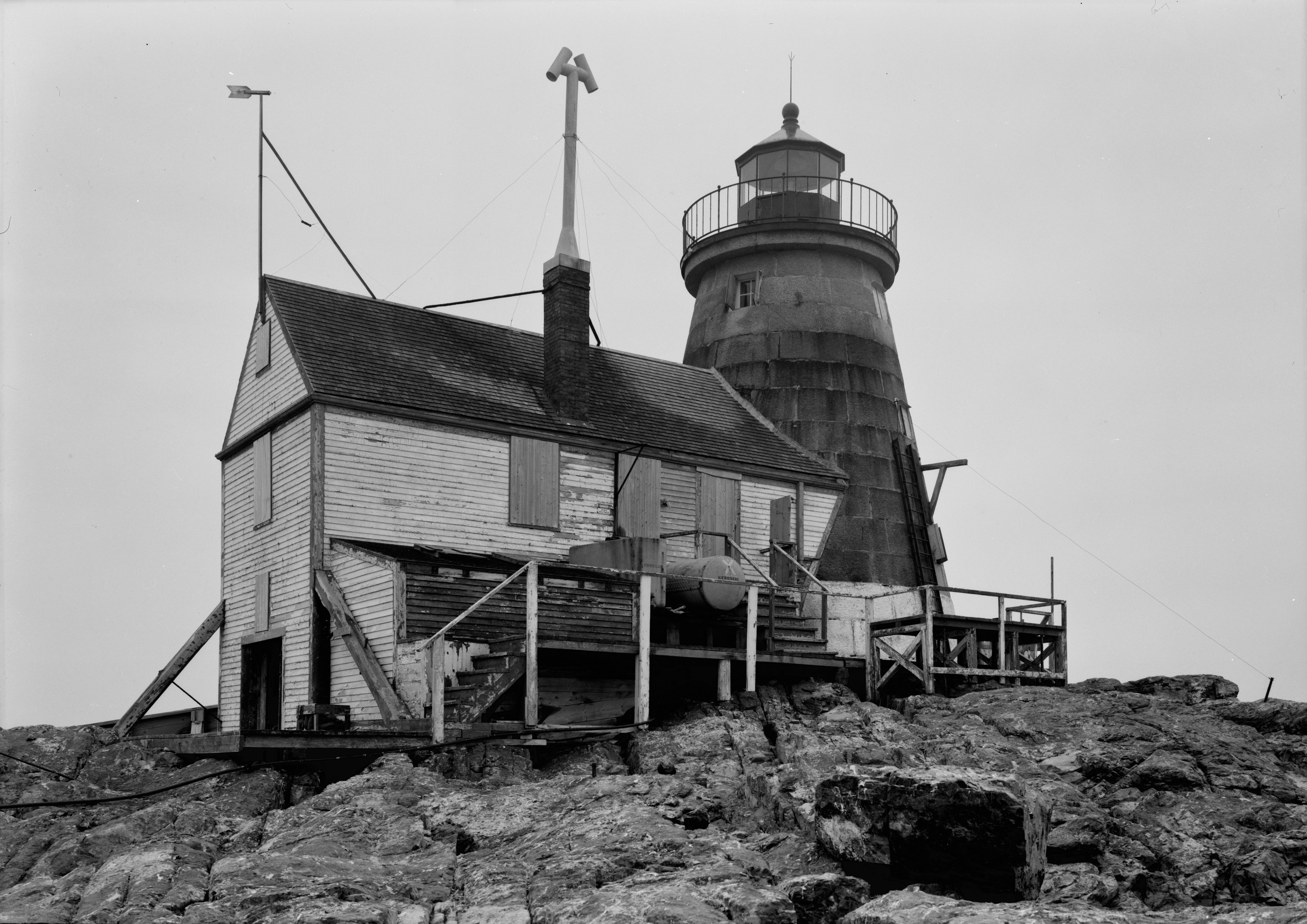 July 1960 image of Saddleback Ledge Lighthouse viewed from west and north elevations, on Saddleback Ledge in Penobscot Bay, Rockland, Knox County, Maine, United States.